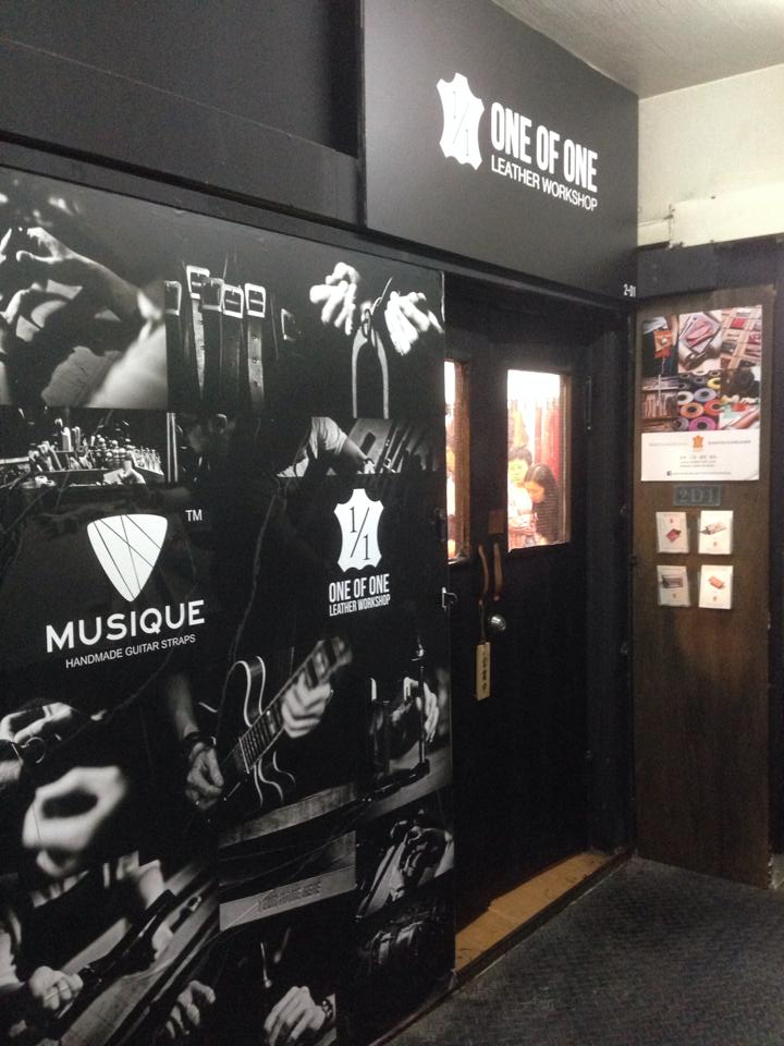 Leather Workshop in industrial building Location: 2D1, 2/F, Yip Win Factory Building, 10, Tsun Yip Lane, Kwun Tong, Kwoloon, H.K.